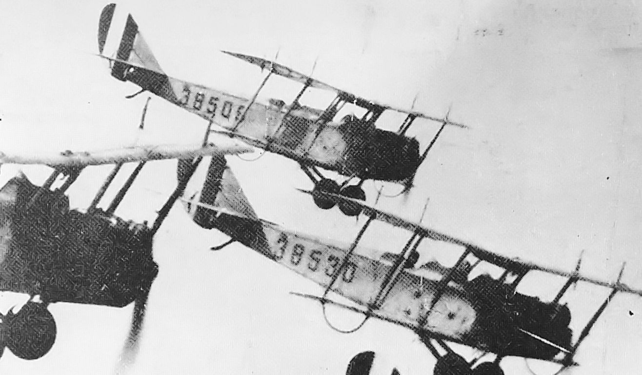 Texas National Guard 111th Observation Squqdron JN-4 Jennies 1925